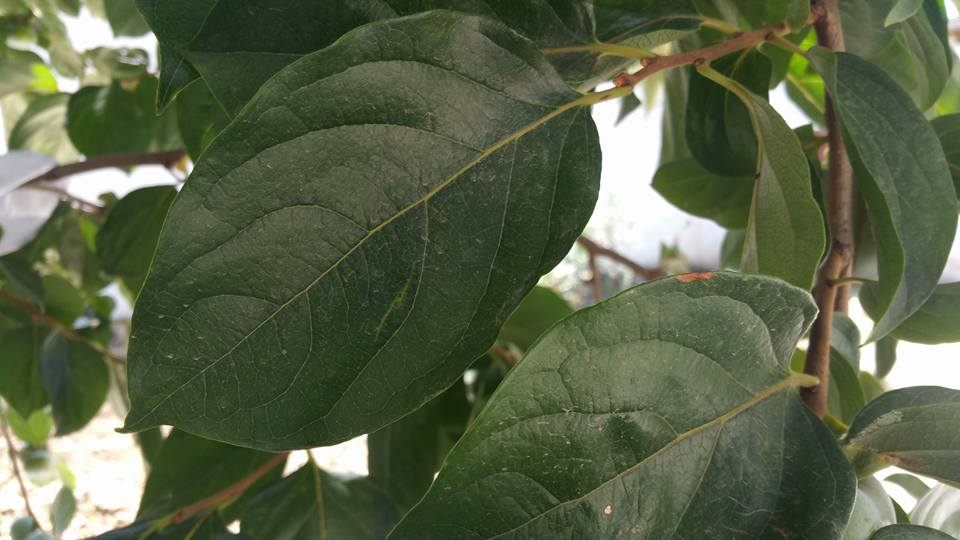 Image of Persimmon plant leaves